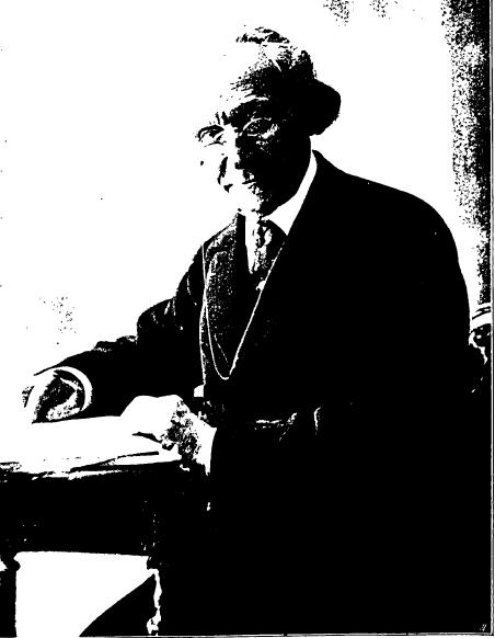 Meir Friedman